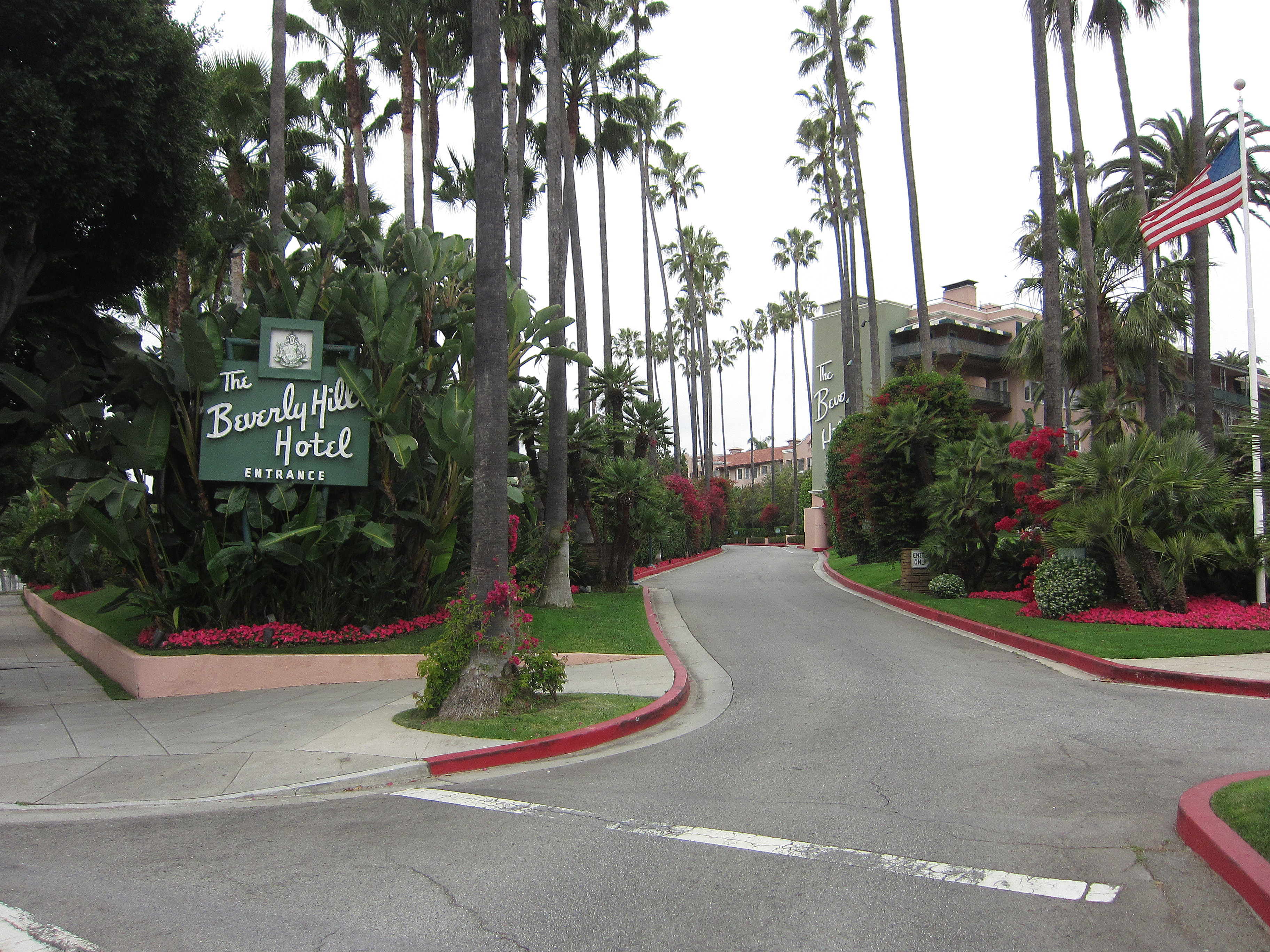 The Beverly Hills Hotel. Photo by Alan Light.